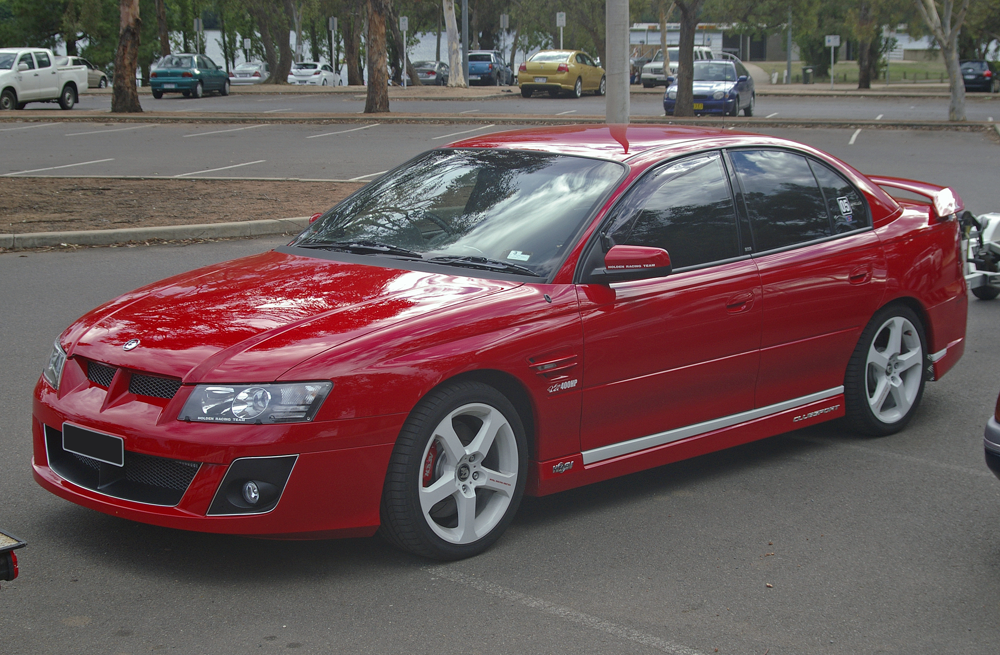 2006 HSV Clubsport Z Series (MY06) HRT Edition.